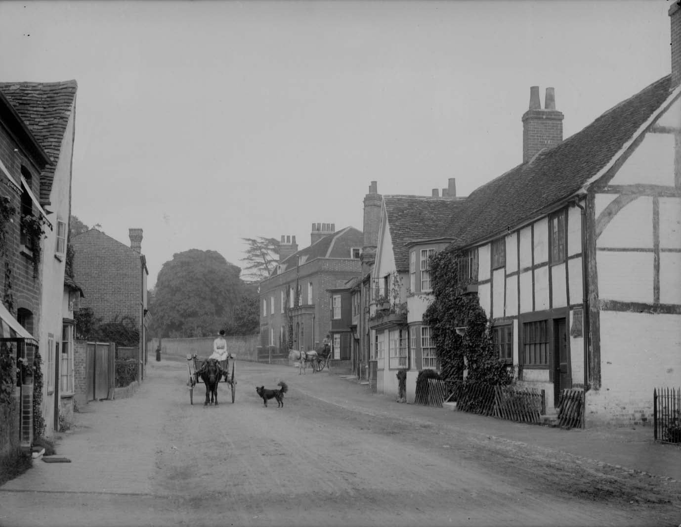 Church Street, Wargrave, looking eastwards, c. 1888. On the south side are Wargrave House, Little Gaunt and Gaunt Cottage. 1880-1889; glass negative by H. W. Taunt, Box 19, No. 7025.